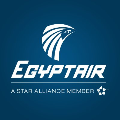 Egyptair logo